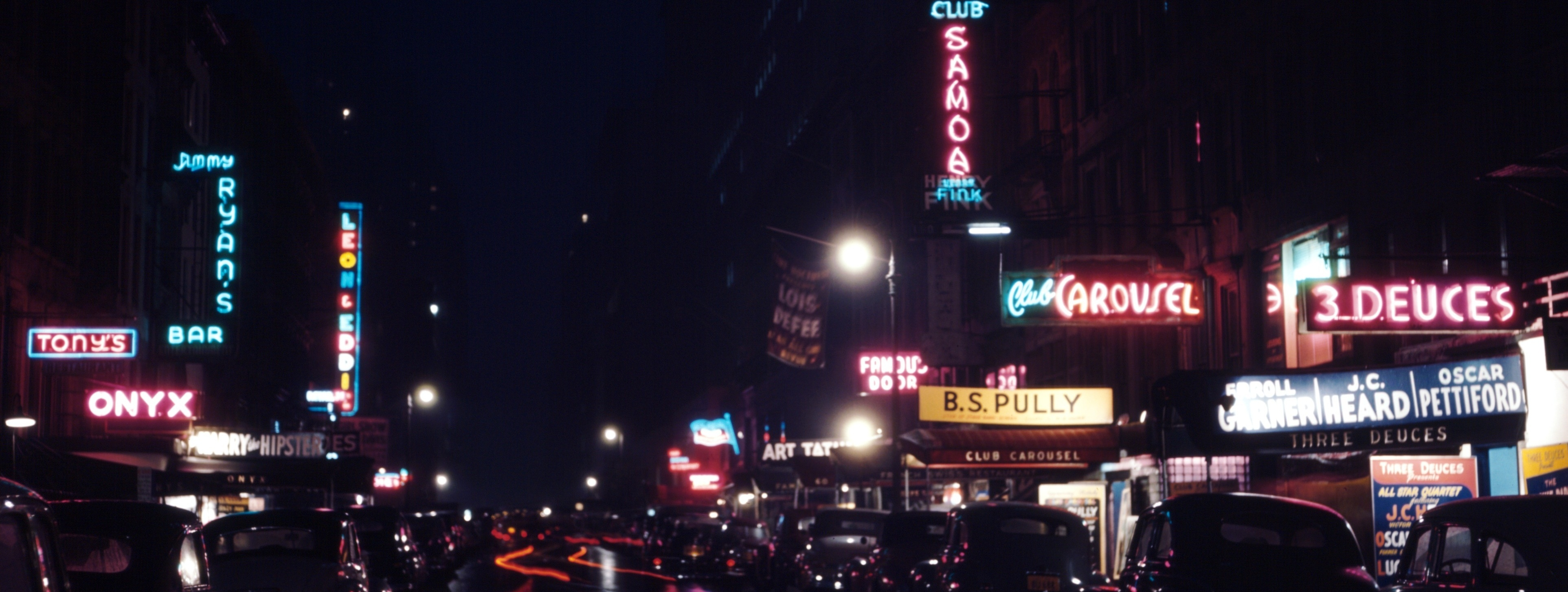 Kodachrome transparency of en:52nd Street (Manhattan) Per Liefbop: This photo is from around May 20, 1948. Harry the Hipster closed at the Onyx in the second half of May. (“Jazz Names Start Street Revival As 2 Ops Nix Girls, “ Down Beat, June 2 1948: 1) Erroll Garner opened at the Three Deuces c. May 20. (“Goings on About Town,“ New Yorker, May 22, 1948). Famous Door reopened with Art Tatum on May 7. (“Music–As Written", Billboard, May 8, 1948: 28).